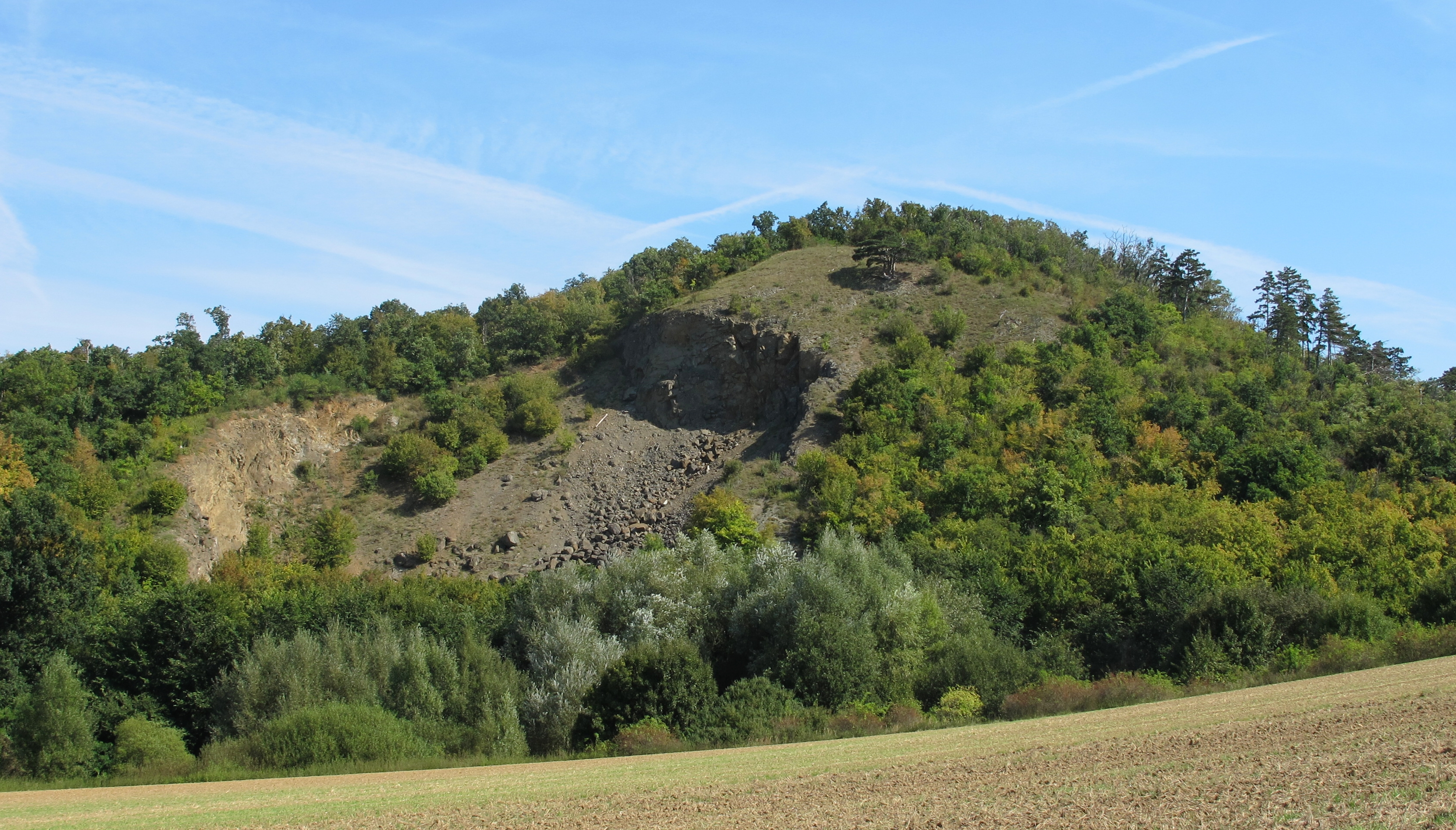 Natural monument Otmíčská hora near village Otmíče in Berou District, Czech Republic